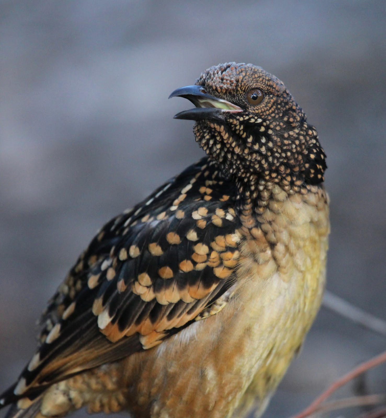 Western Bowerbird (Chlamydera guttata), Northern Territory, Australia